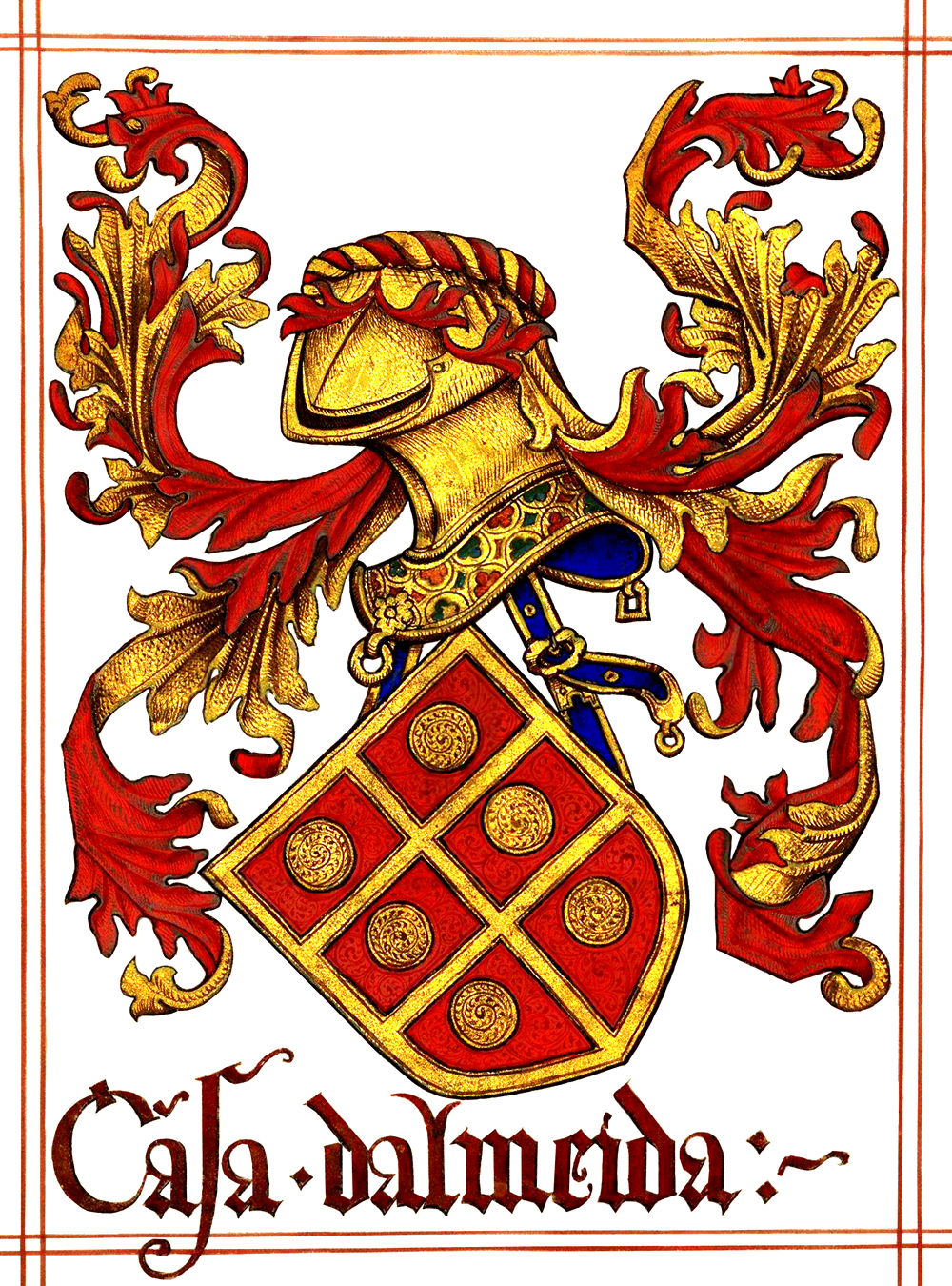 Casa de Almeida